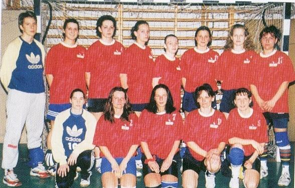 Handball (woman) team of Dorogi SE